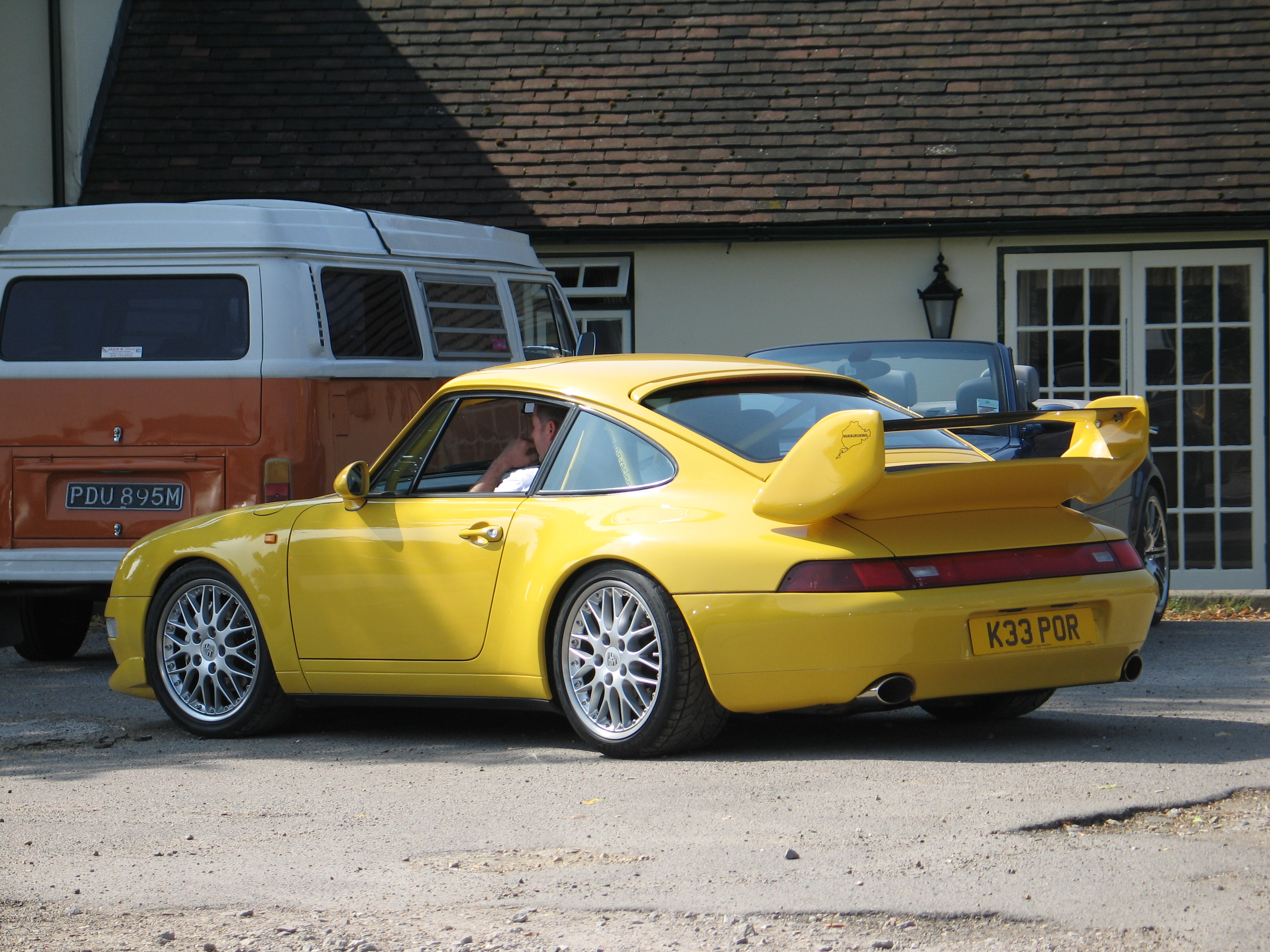 Yellow Porsche 911 Carrera RS Type 993 Clubsport (rear)